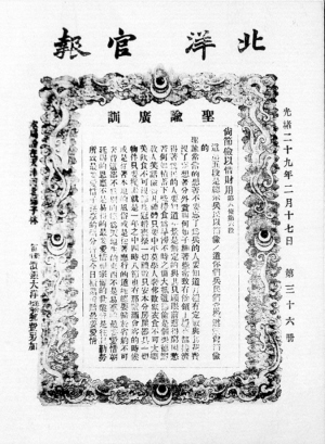 Beiyang official newspaper 1903